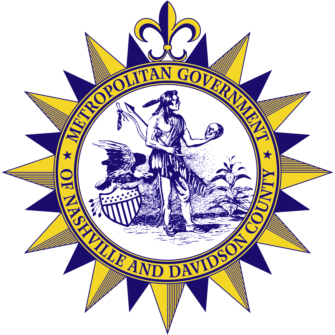 Seal of the Government of Metropolitan Nashville and Davidson County for the history of the seal and flag of Nashville.